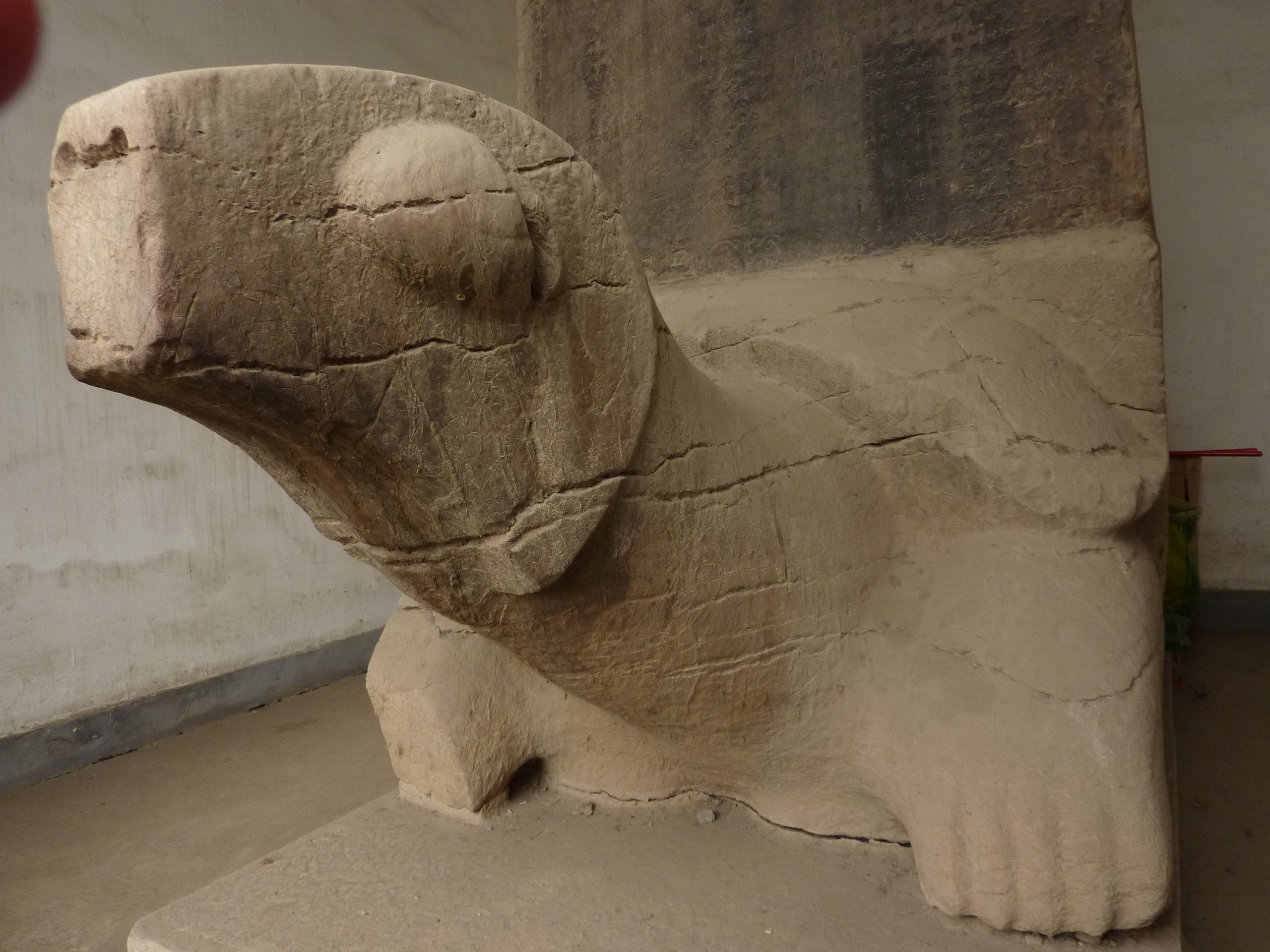 The stele-bearing tortoise at the tomb of Xiao Dan in Ganjiaxiang, an industrial neighborhood in Qixia District, Nanjing. The tortoise is now protected by being locked into a small stone tower.